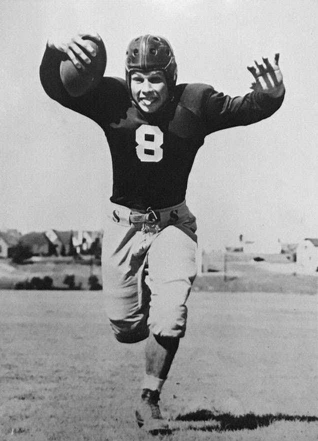 TCU quarterback Davey O'Brien in action